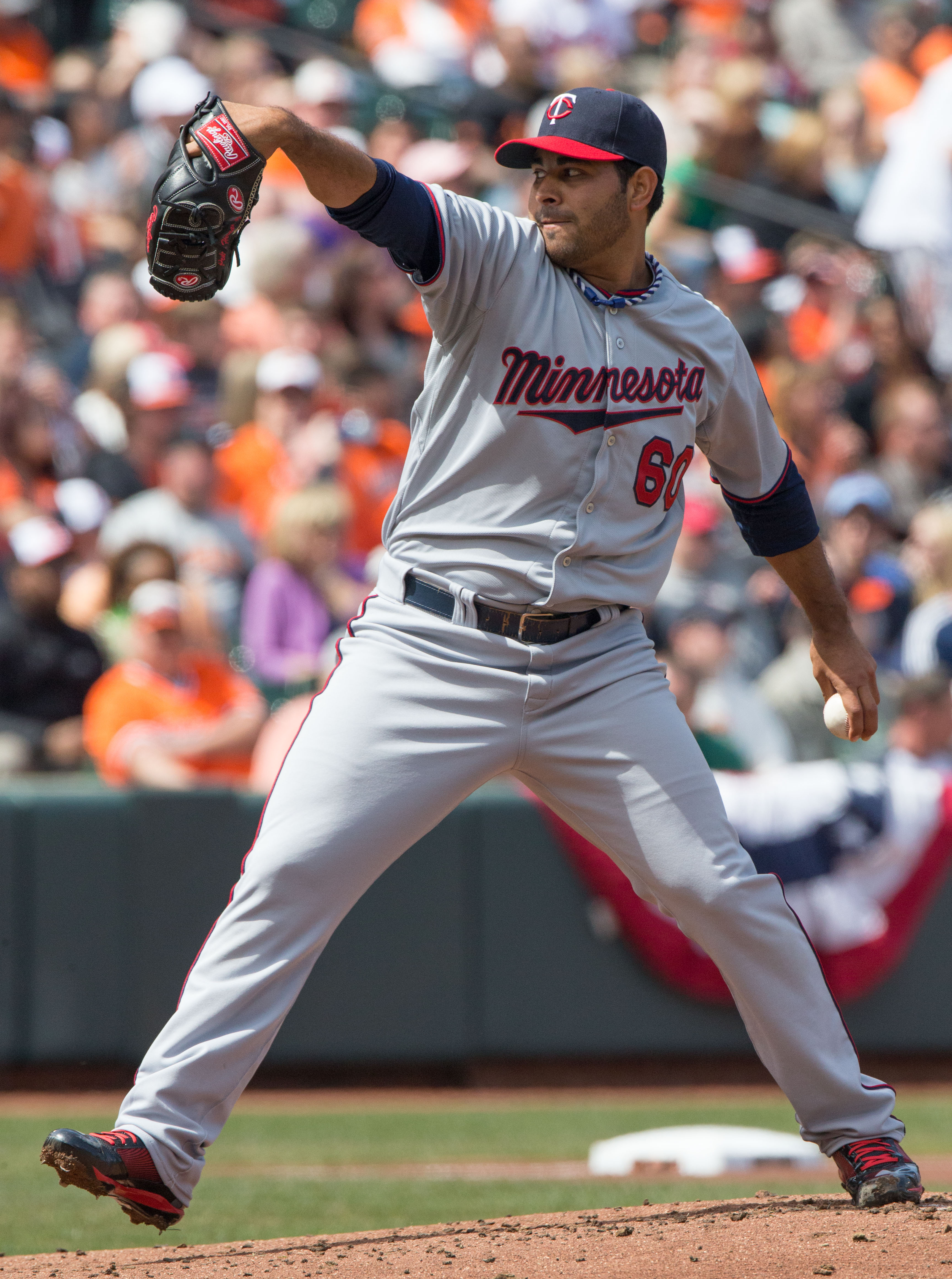 Minnesota Twins pitcher Pedro Hernández – Minnesota Twins at Baltimore Orioles April 7, 2013